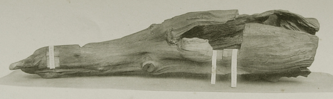 O-Jukko incense wood (Middle 135). Also known under the name of "Ran-jya-tai", this famous incense resin wood log originated from Laos or Vietnam. Several Japanese powerful lords and emperors cut fragments from this log for incense use.